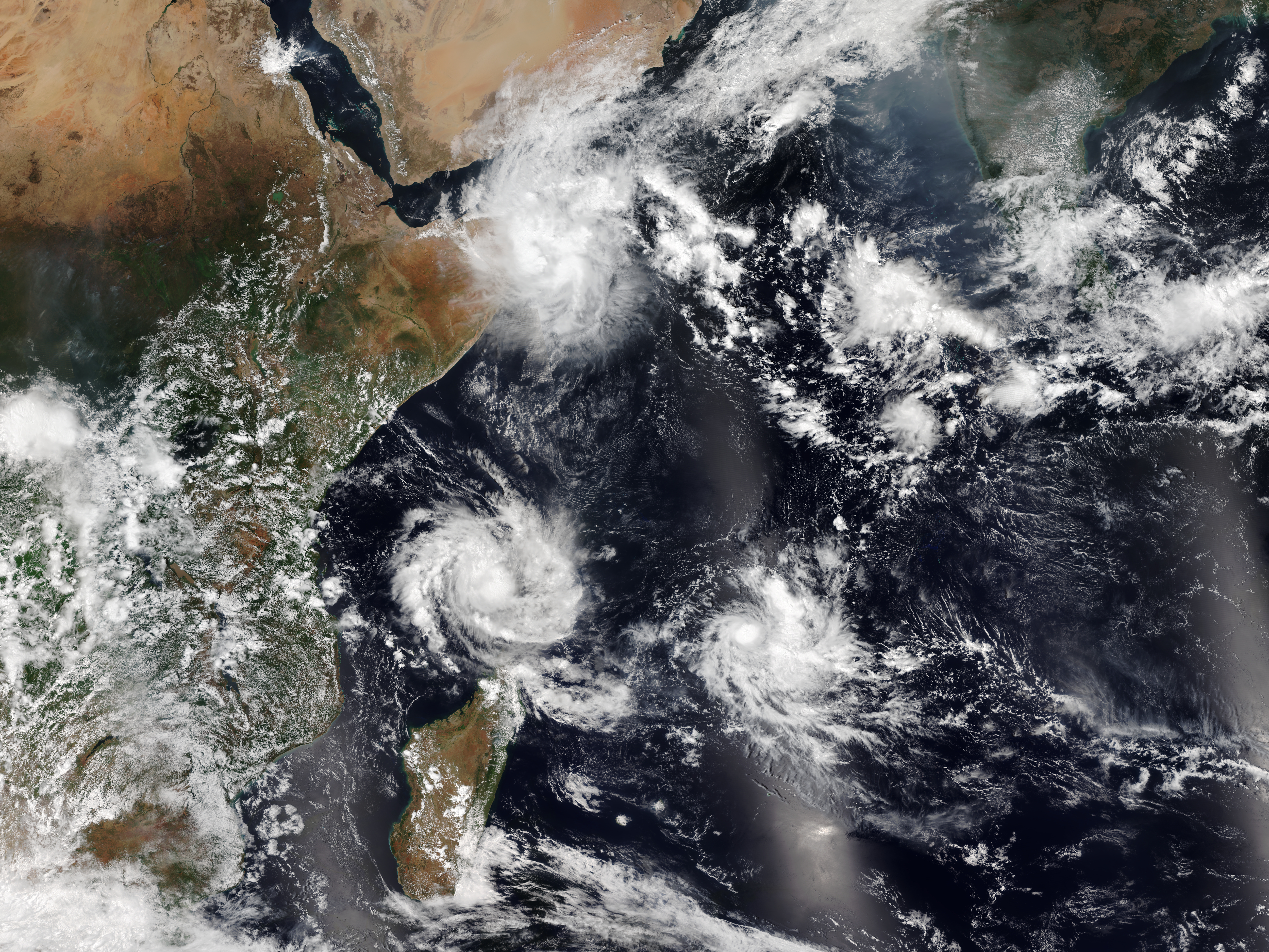 Cyclones Ambali, Belna, and Pawan active in the Western Indian Ocean.